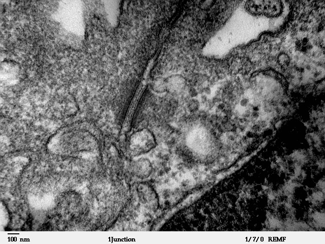 Transmission electron microscope image of a thin section cut through an epithelial cell from mammalian lung tissue. Image shows lateral membranes of two cells at the site of a desmosome. JEOL 100CX TEM